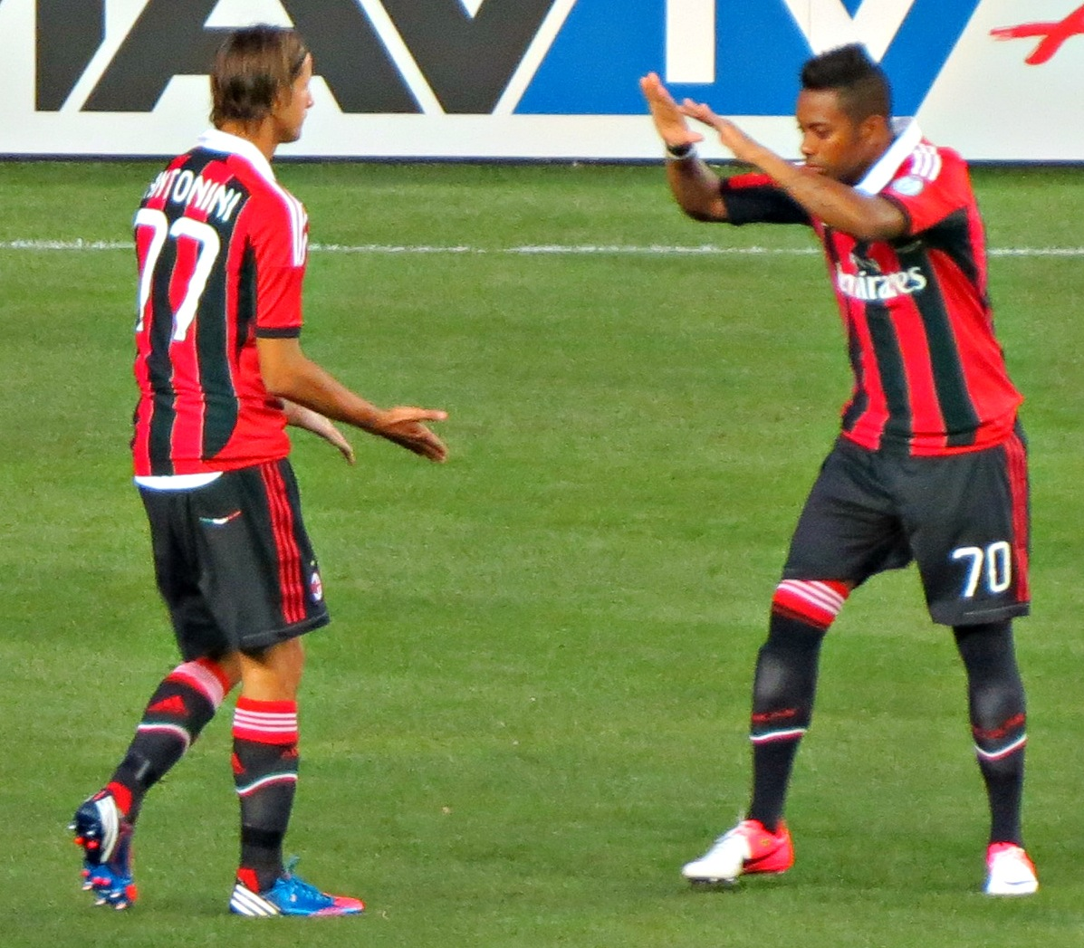 Luca Antonini and Robinho of A.C. Milan during a football match between A.C. Milan and Real Madrid in the 2012 World Football Challenge.